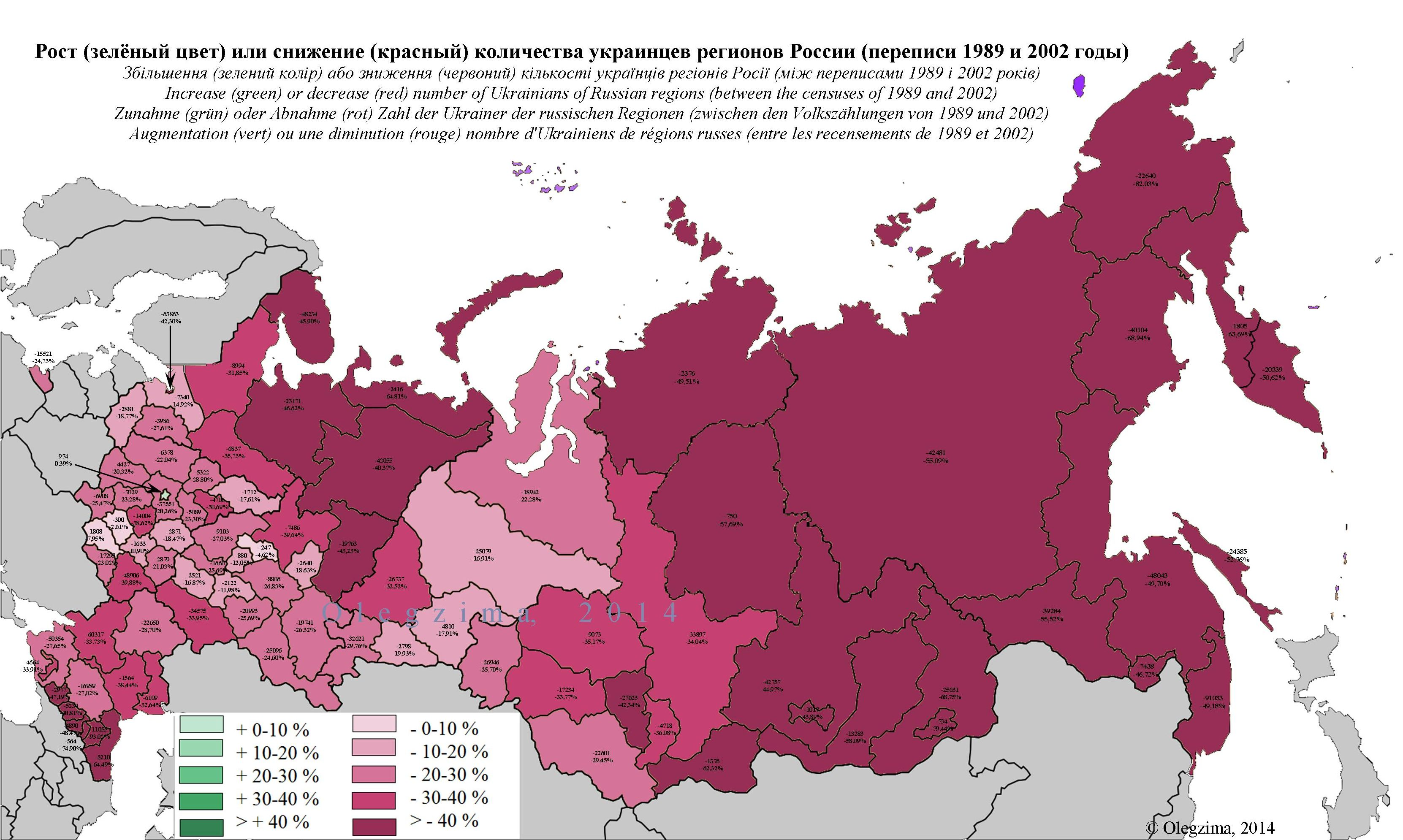 Increase (green) or decrease (red) number of Ukrainians of Russian regions (between the censuses of 1989 and 2002)